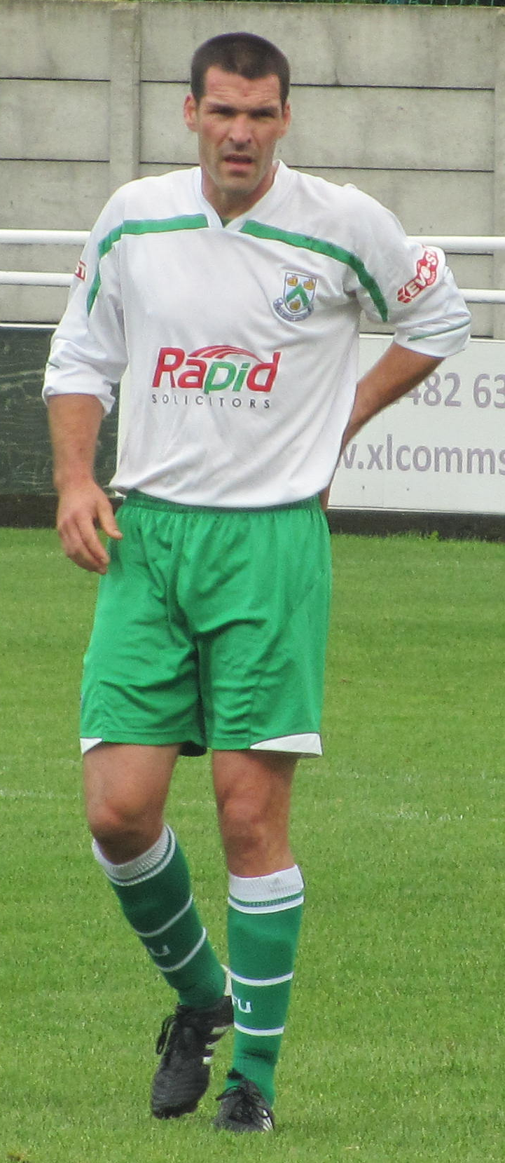 Mark Greaves